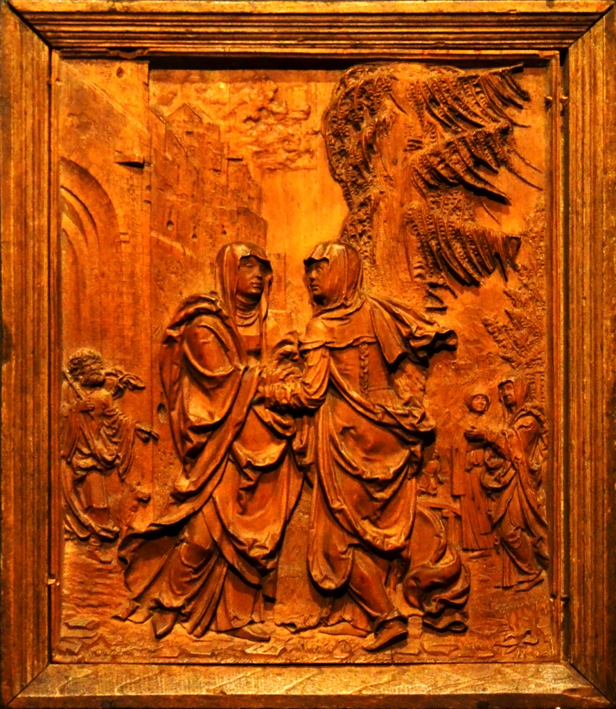 Master IP, Annunciation, National Gallery in Prague